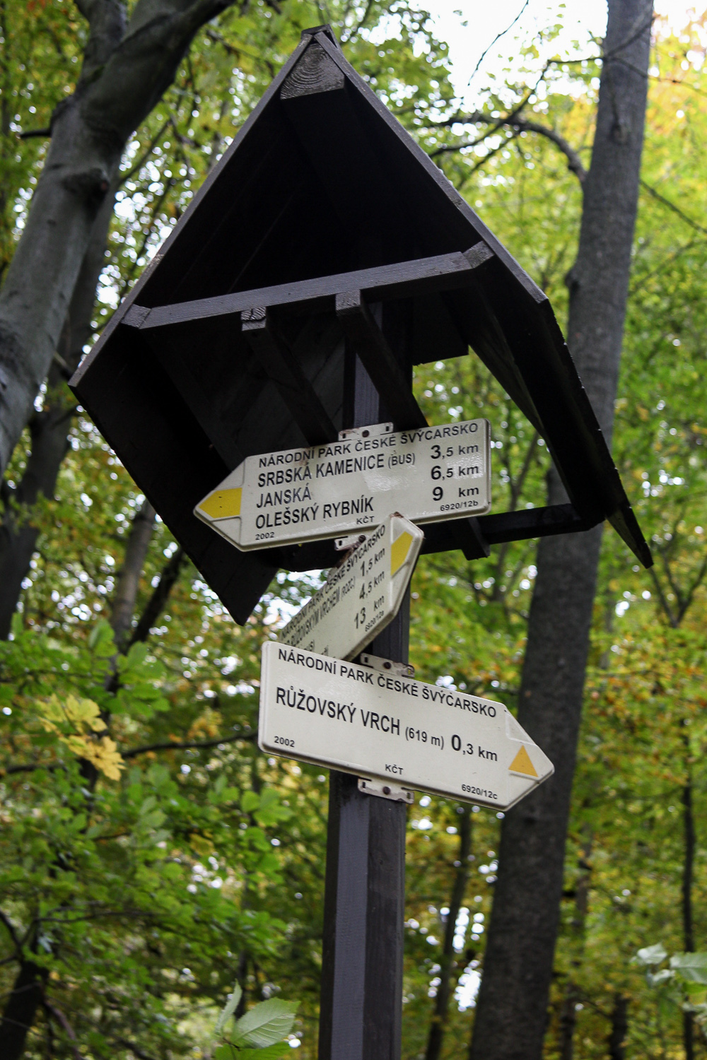 Tourist signpost in national nature reserve Ruzak - turn-off to the summit of the Ruzovsky vrch